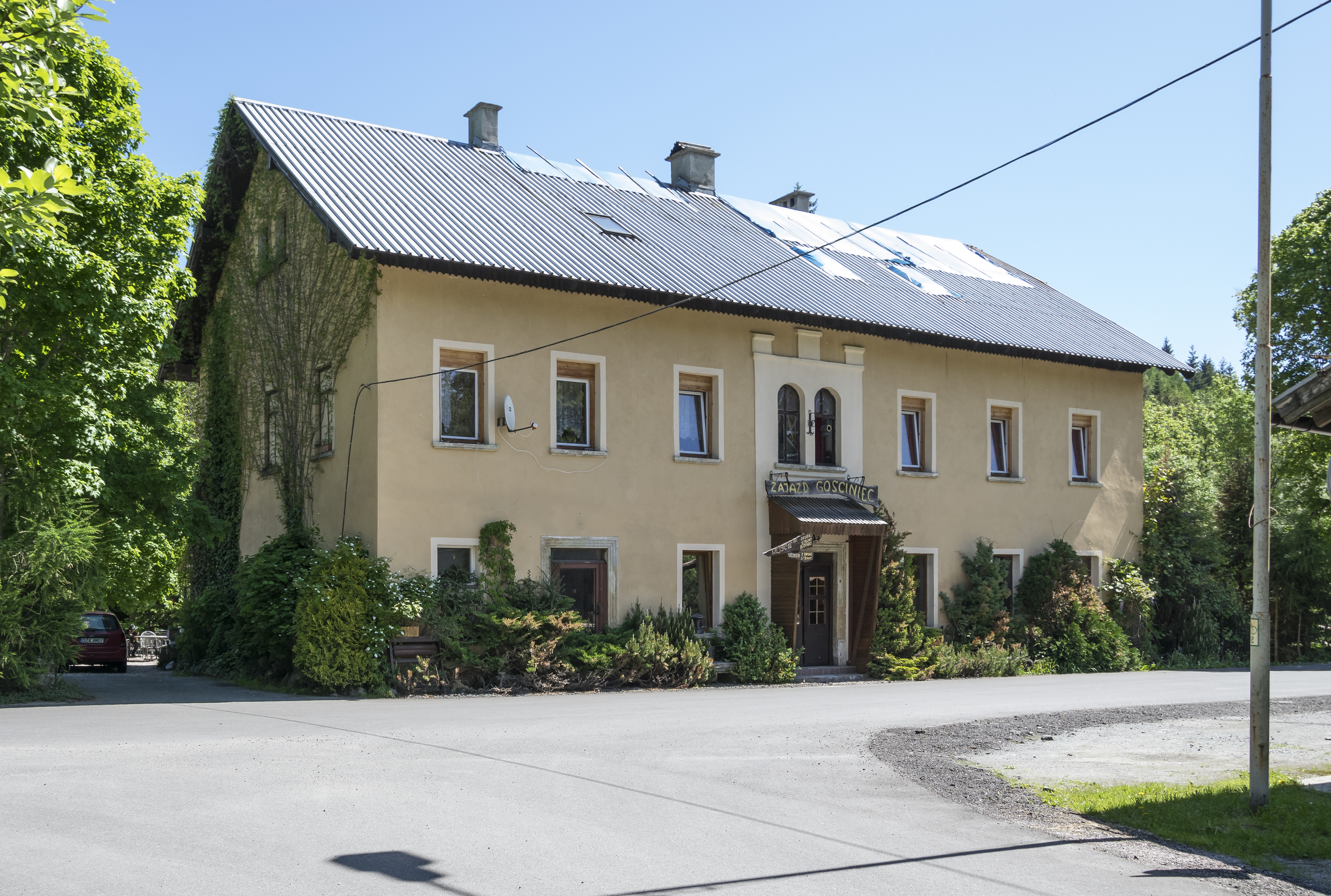 Gościniec inn in Niemojów